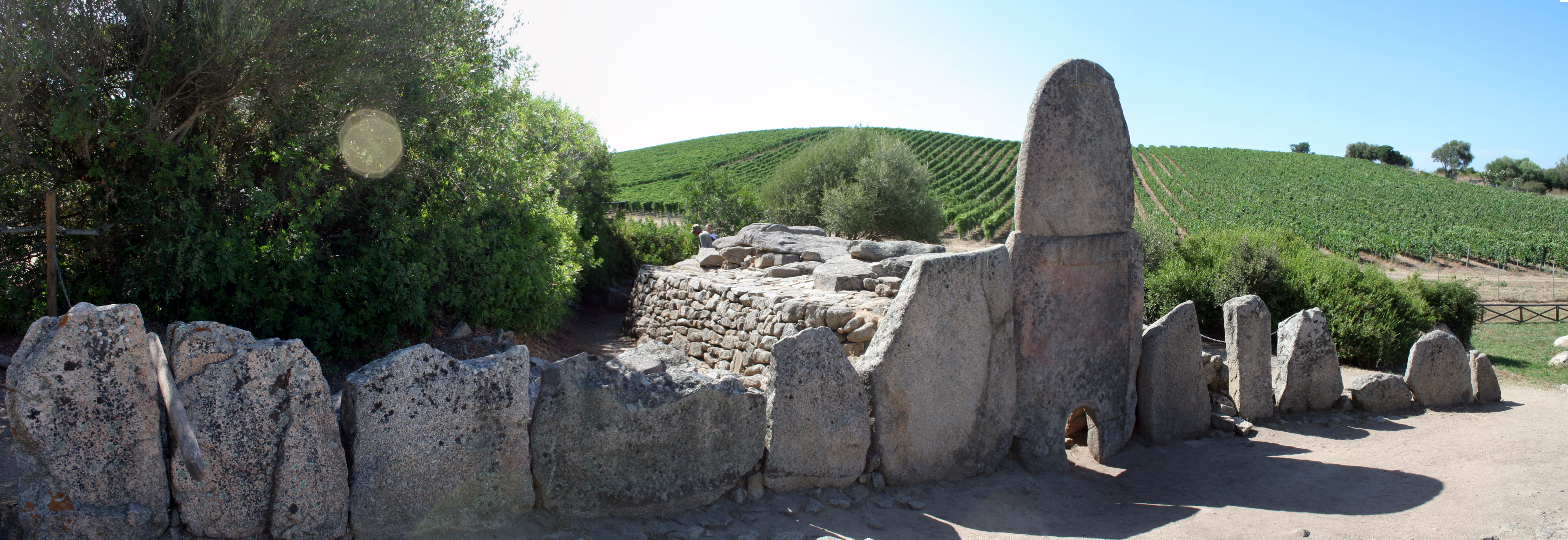 Giants' grave at Coddu Vecchiu (Sardegna)